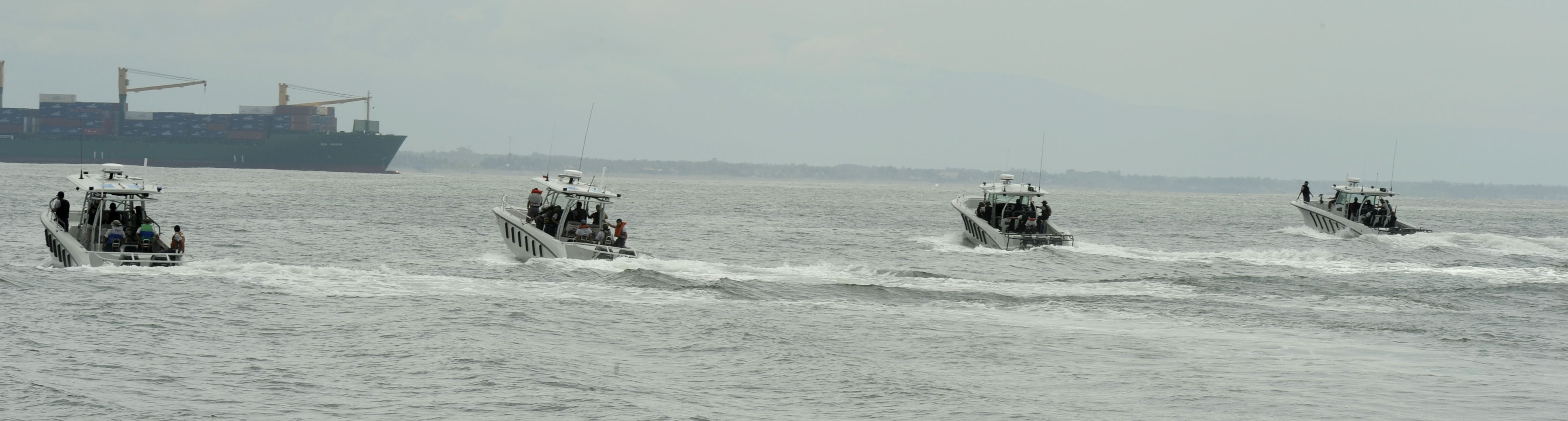 SAN JOSE, Guatemala (Aug. 25, 2010) Sailors assigned to the Fuerza Especial Naval (FEN) of the Guatemalan Navy pilot maritime patrol boats in an echelon formation to demonstrate what they've learned during two weeks of training with Maritime Civil Affairs and Security Training (MCAST). The MCAST Guatemala small boat operations mobile training team trained 40 FEN sailors how to perform tactical formations and protect high value assets at sea. The training is part of military-to-military training efforts by the U.S. and nations to help police and maintain international waters. (U.S. Navy photo by Mass Communication Specialist 1st Class Peter D. Lawlor/Released)